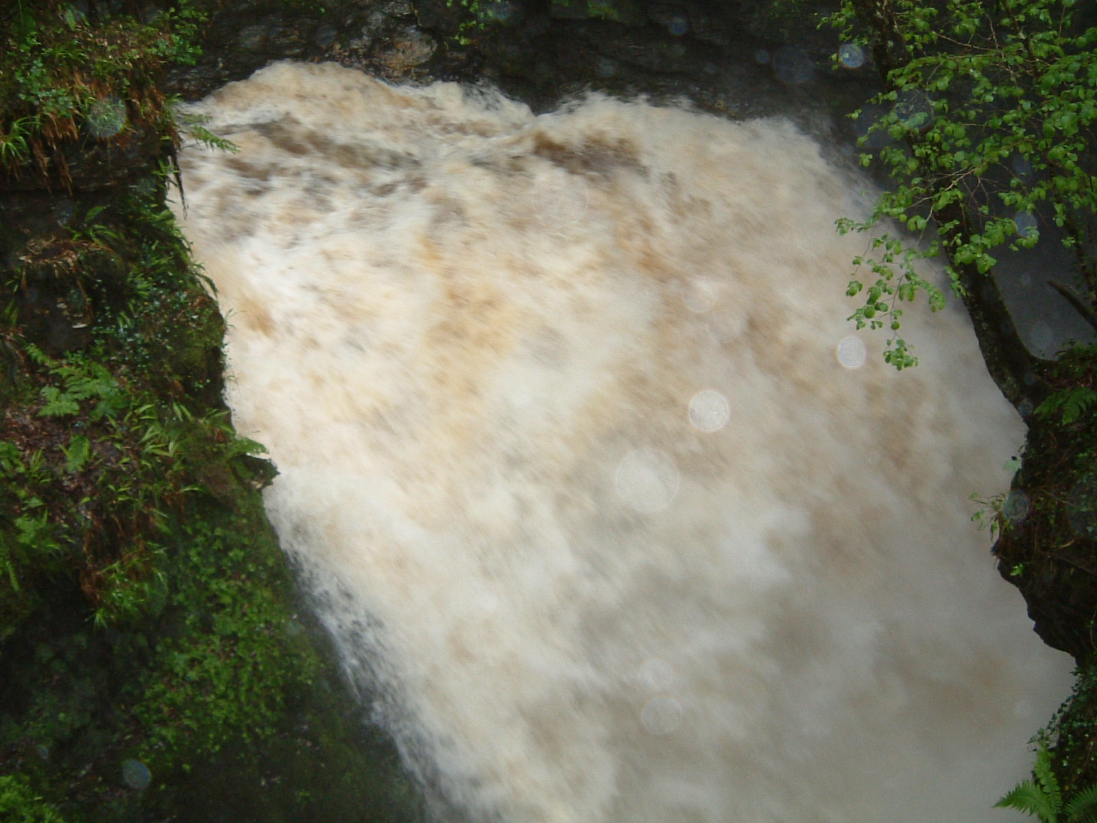 Rhaedr Cynfal, near Ffestiniog, Gwynedd. Taken by James@hopgrove, June 2005.